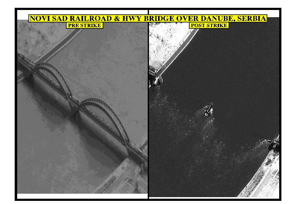 Pre post strike assesment Novi Sad May 3 1999